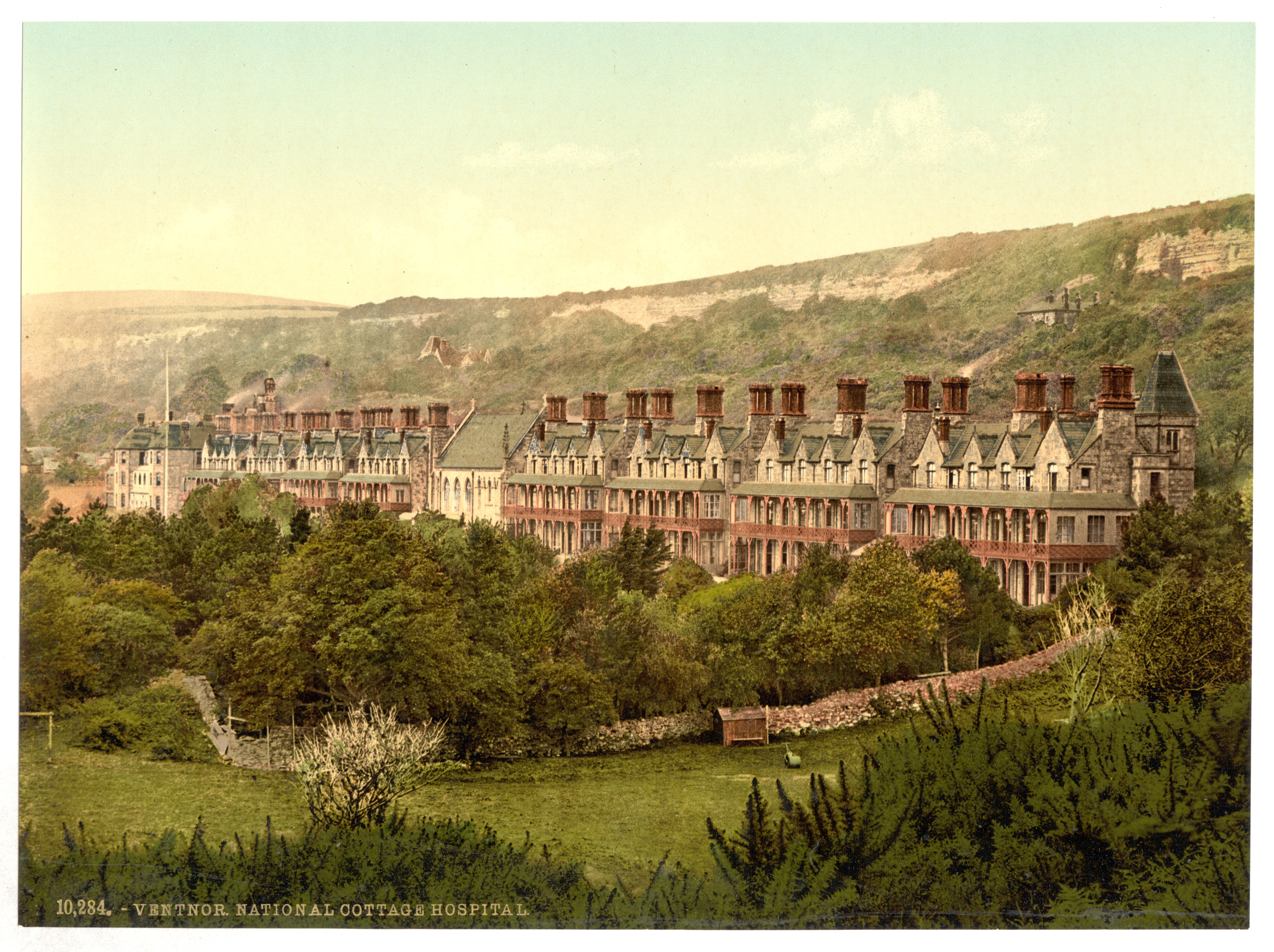 Print no. "10284".; Title from the Detroit Publishing Co., Catalogue J-foreign section, Detroit, Mich. : Detroit Publishing Company, 1905.; Forms part of: Views of England in the Photochrom print collection.